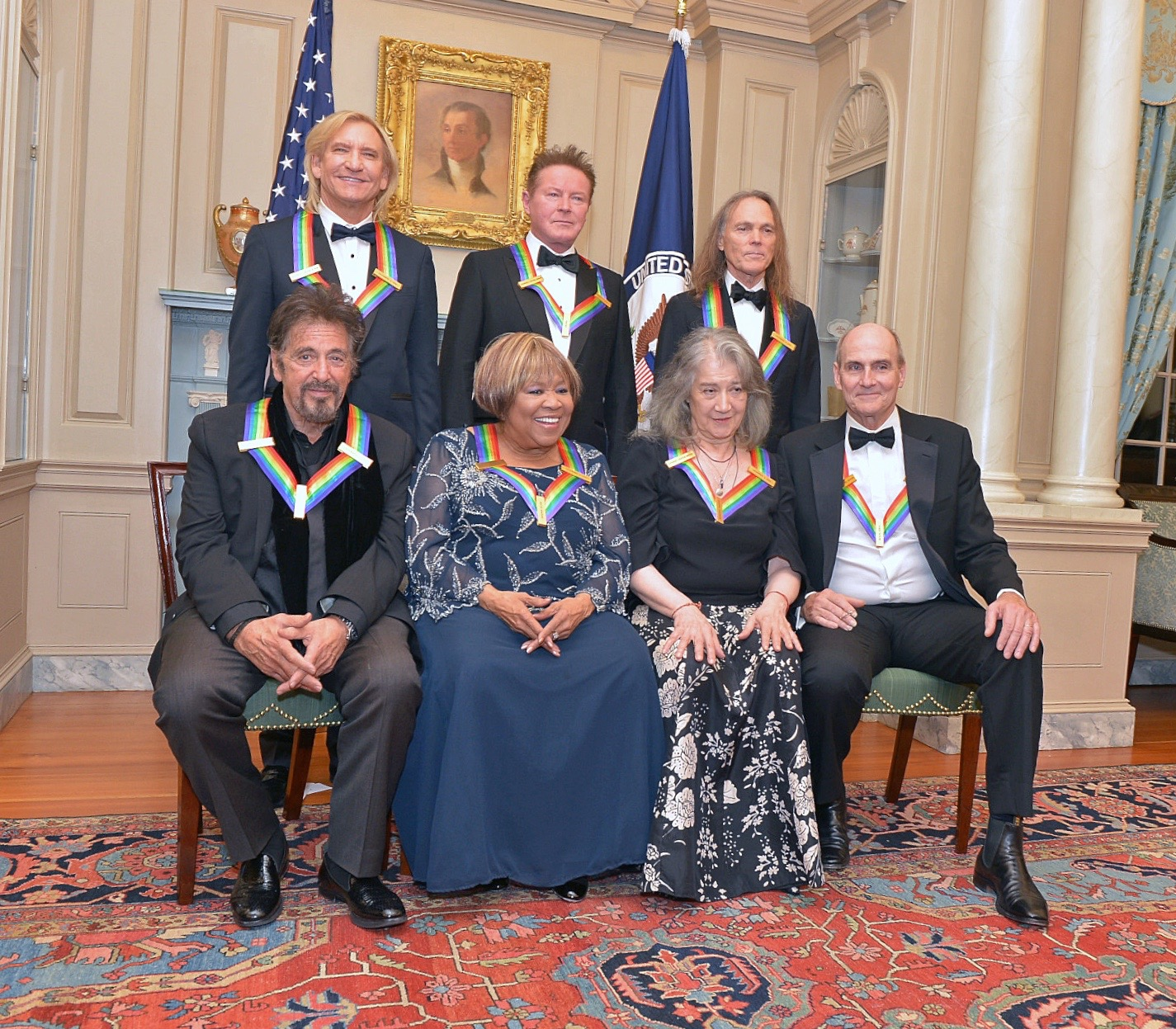 The 2016 Kennedy Center Honorees poses for a photo at the Kennedy Center Honors Dinner, attended by U.S. Secretary of State John Kerry at the U.S. Department of State in Washington, D.C. on December 4, 2016. [State Department Photo/Public Domain]